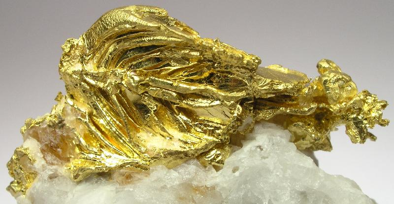 Gold Locality: Mockingbird Mine (Talc & Lacy claim), Whitlock, Whitlock District, Bagby-Mariposa-Mount Bullion-Whitlock District, Mariposa County, California, USA (Locality at ) Size: miniature, 4.0 x 3.7 x 3.3 cm Gold (spinel-twinned) This is, to me, a shockingly unique specimen featuring the largest , well-crystallized 3-dimensional spinel twin gold on matrix that I have ever seen for sale. This is NOT a flattenned crystalline gold as with Eagles Nest material and it is not a typical octohedral crystal or cluster of such as some Mockingbird material occurs. Rather, this is a SINGLE thick , euhedral CRYSTAL, fully 3.5 cm tip to tip, just so nicely perched on a well-trimmed matrix (prepped out by a VERY clever and risk-taking preparator to whom kudos is due!).This crystal has a natural patina as the enclosing quartz was removed with physical means instead of the less elegant but easier method of hydrofluoric acid. It is complete all around and is EQUALLY fine from the other side - it displays either way. If I have not yet conveyed how impressed I am, let me try more bluntly: I LOVE THIS ROCK! I loved it the moment I saw it in late 2005. I sold it shortly thereafter to a collector whom has now started to cull and slim down his collection, and I leapt at the chance to exchange it back. At the time I first had it, I could not reveal the source from whom I had obtained it; but now I can say it is from the personal collection of the late Bill Forrest: a longtime California collector, gold-miner, and co-owner of the Benitoite mine during much of its modern heyday. To me, this specimen screams out from a case in a manner far more impactful and unique than any number of larger golds I have seen for sale. The size of the crystal, and its sharp twinning, make it important. The brilliant lustre and aesthetic perch on matrix make it collectible to the connosseur. Photo on green background , by Joe Budd.